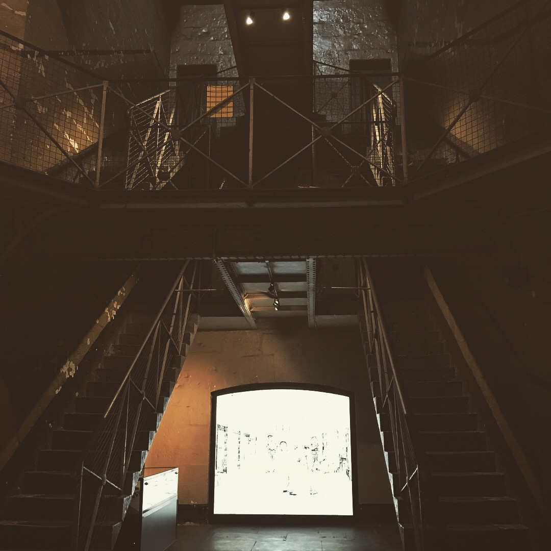 A photo of the inside of the Old Melbourne Gaol taken on July 13, 2017.